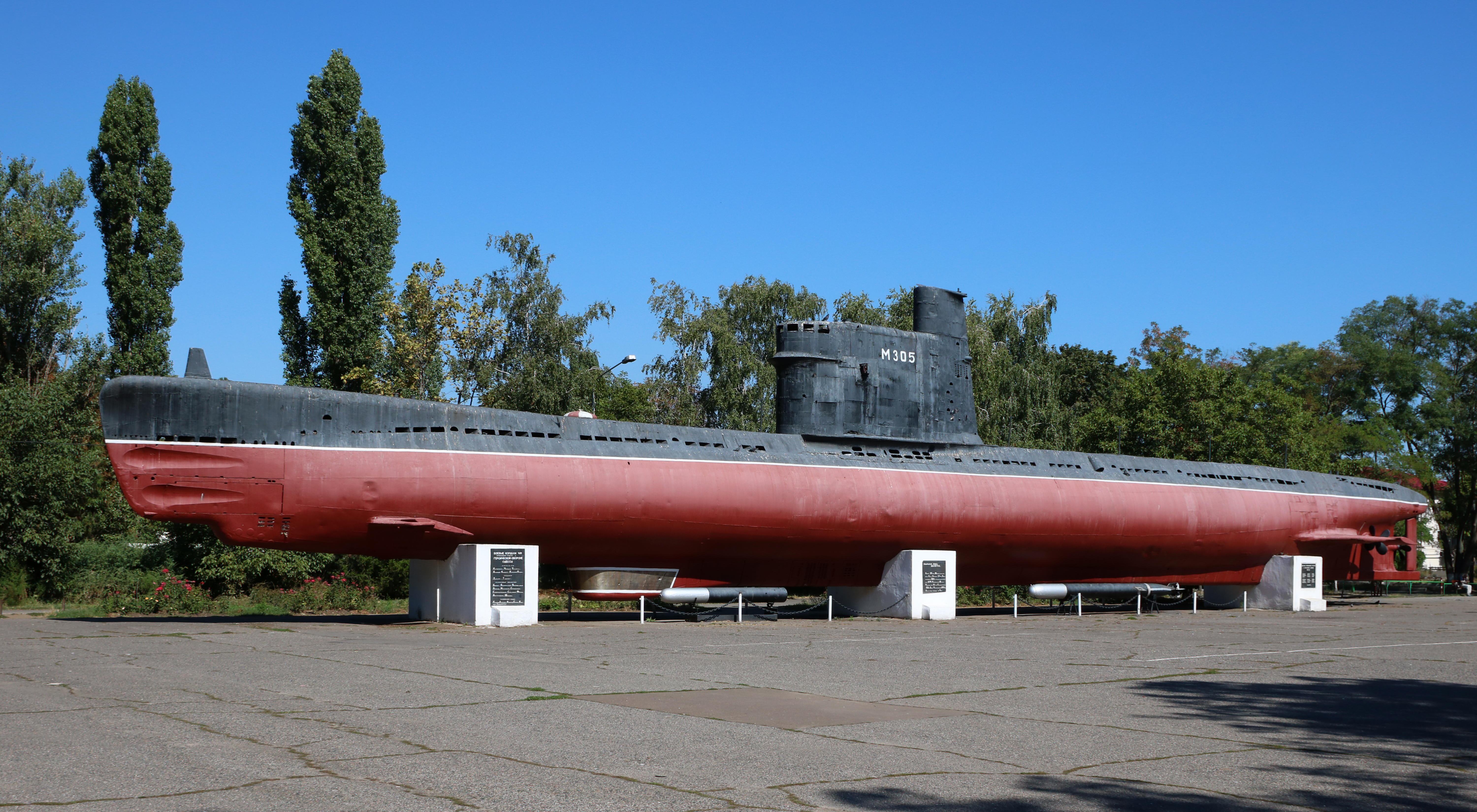 Soviet submarine M-296 of Quebec-class as a memorial in Odessa under name M-305.